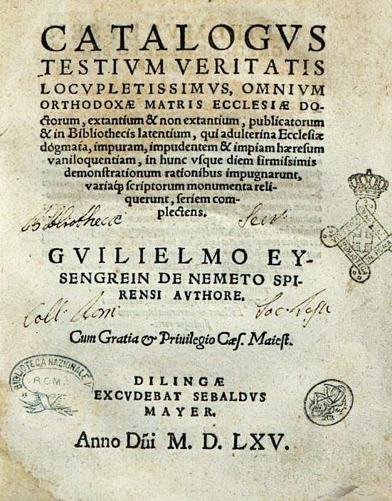 Buchtitelblatt von Wilhelm Eisengrein, 1565